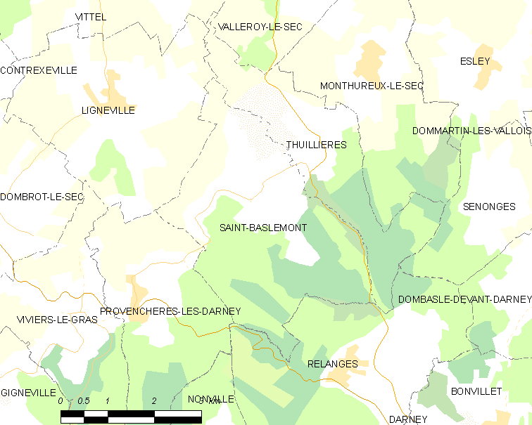 Map of French municipality Saint-Baslemont